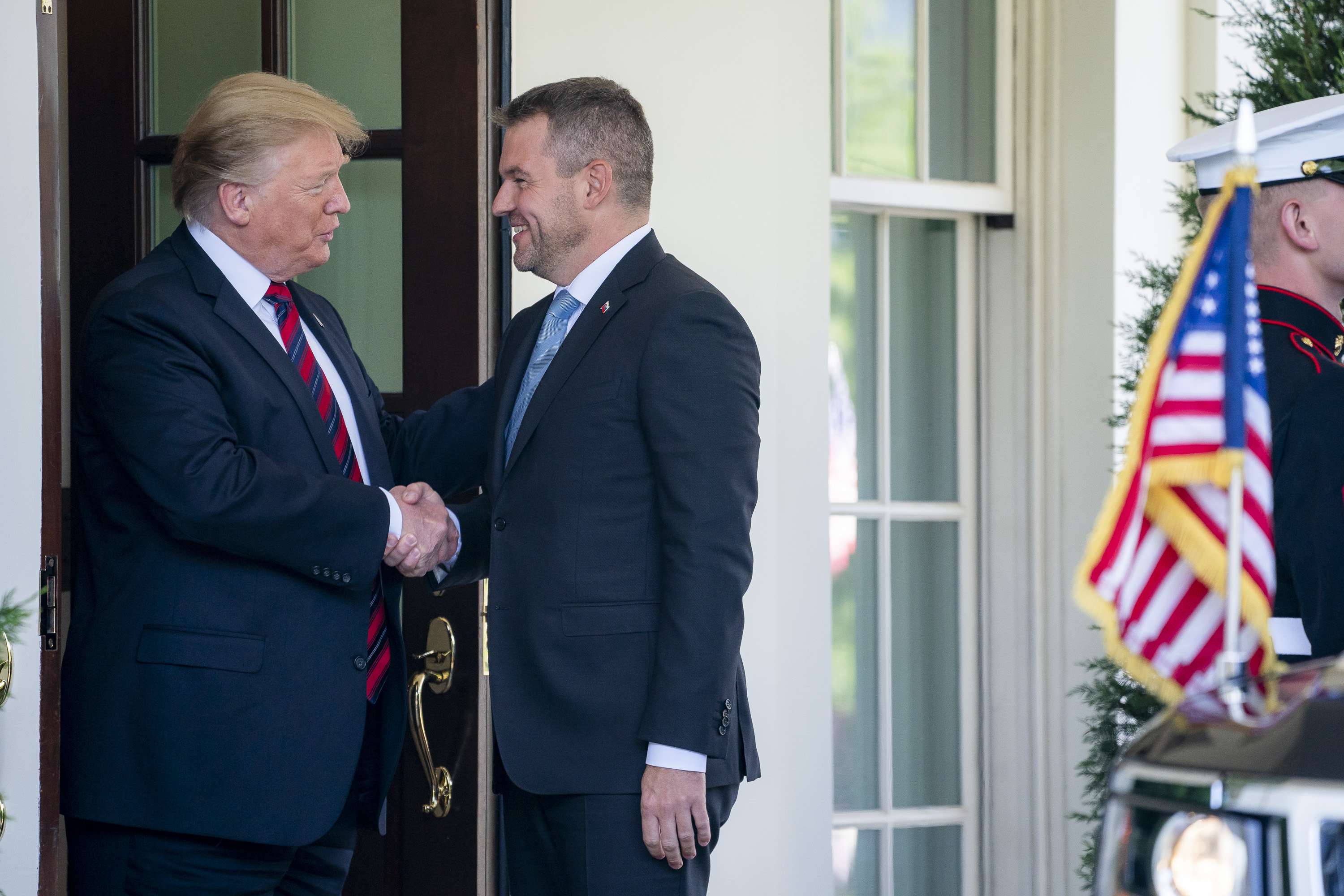 President Donald J. Trump welcomes the Slovak Prime Minister Peter Pellegrini to the White House Friday, May 3, 2019, 2019, in the West Wing Lobby entrance of the White House. (Official White House Photo by Tia Dufour)